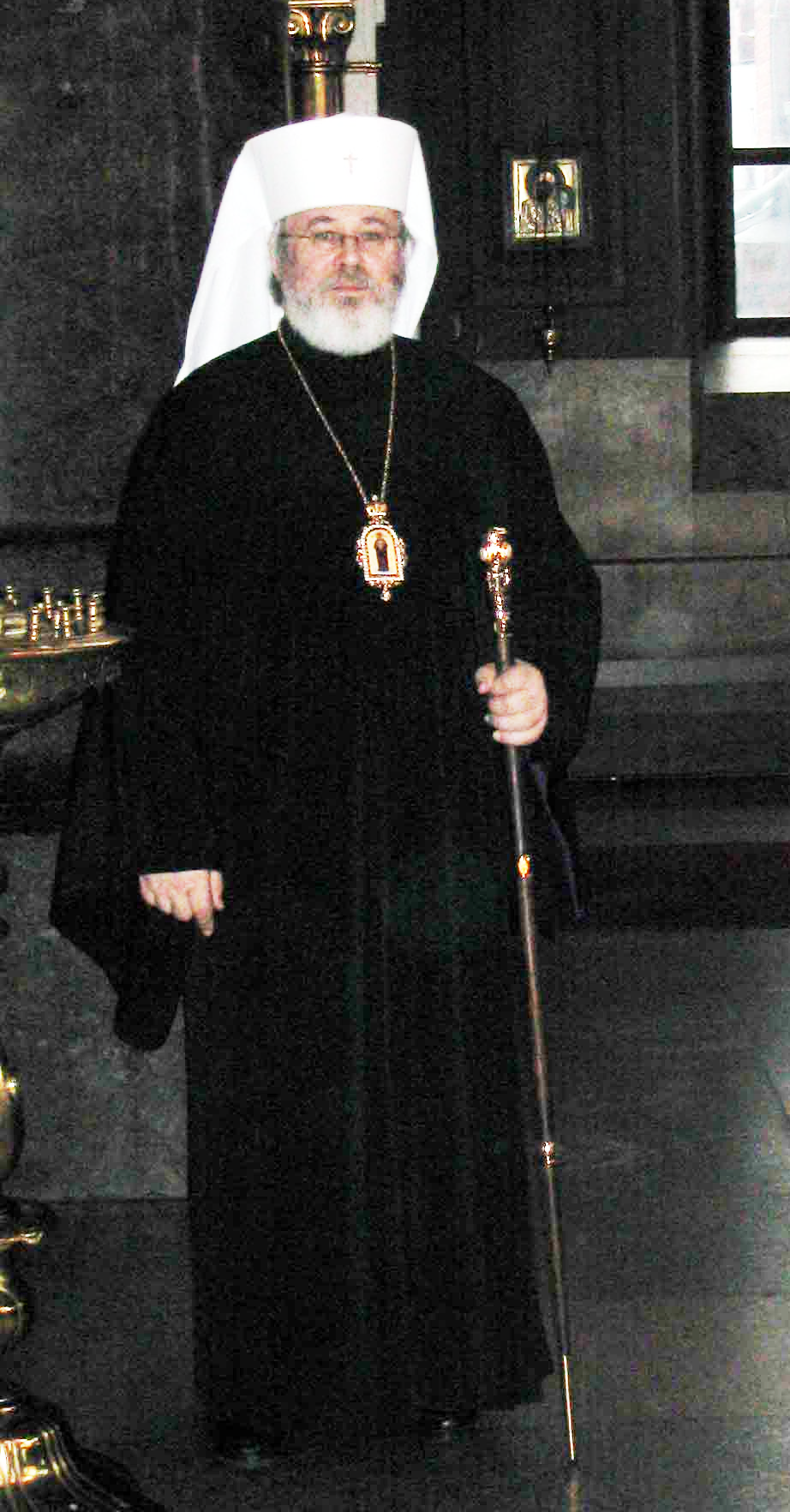 Archbishop Leo (Makkonen) of Karelia and All Finland, head of the Finnish Orthodox Church, at Uspenski Cathedral, Helsinki, Finland